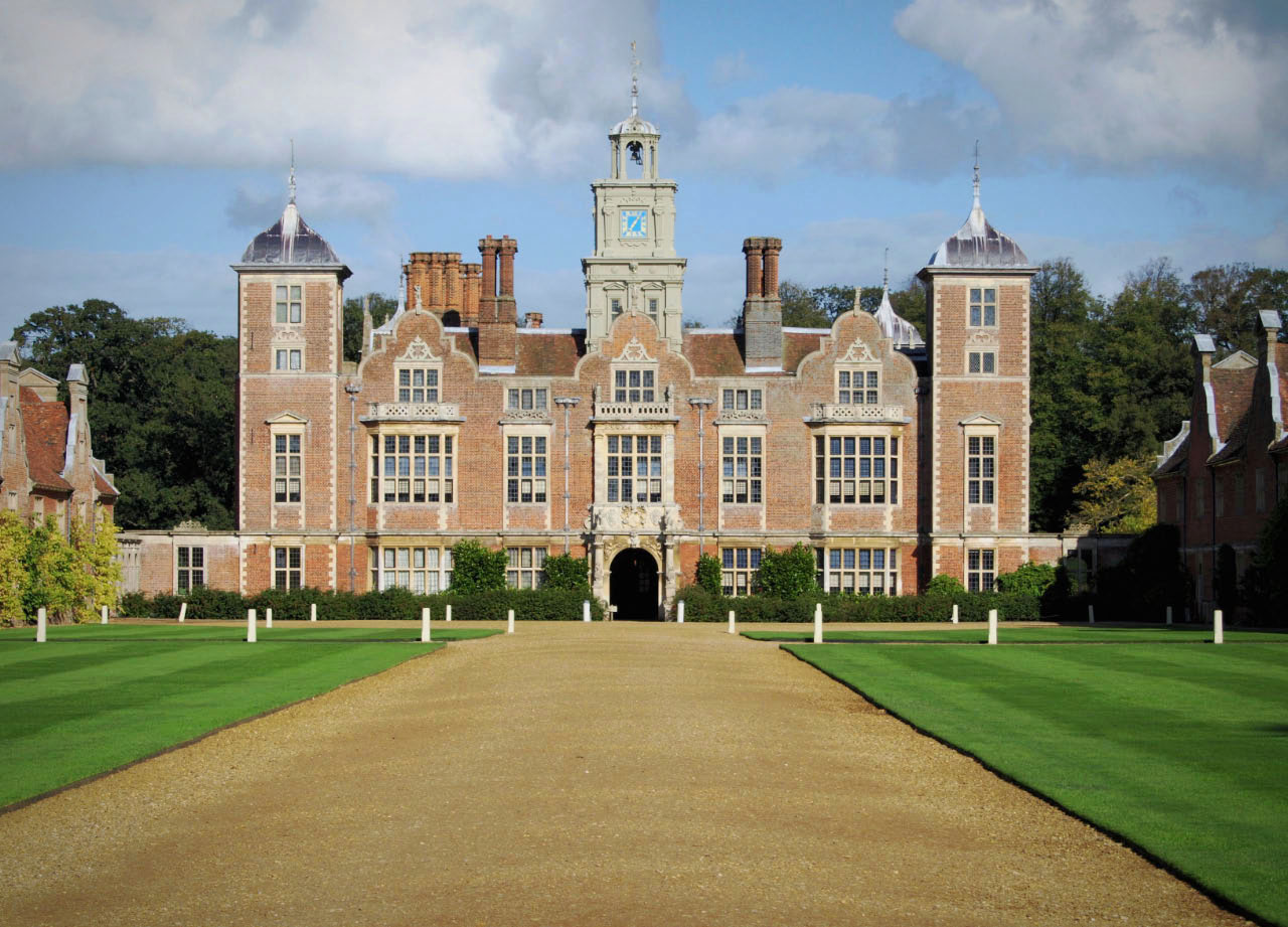 grade II listed building